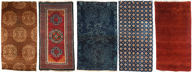 examples of 19th Century Tibetan rug designs